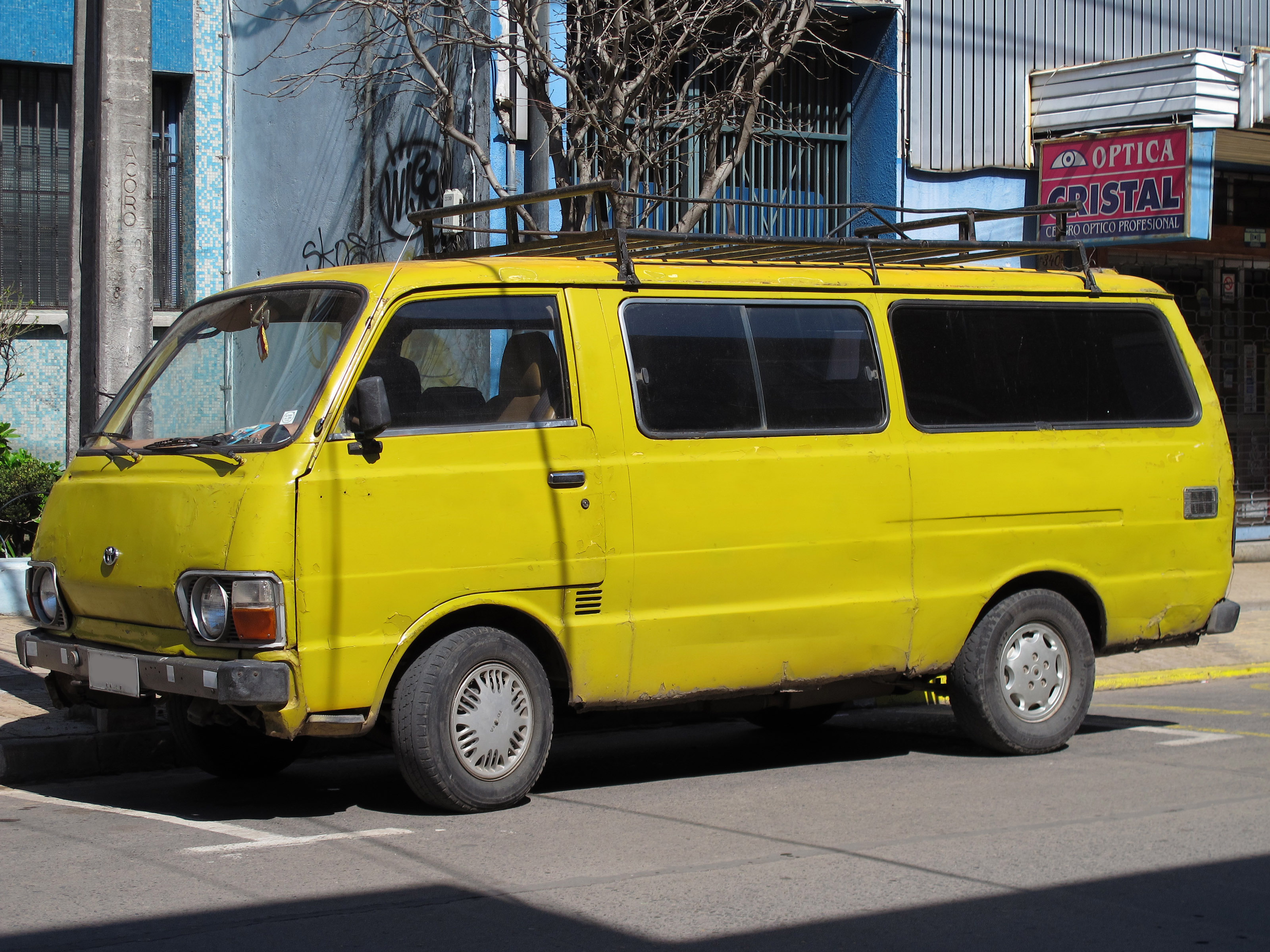 Toyota Hiace Van 1981